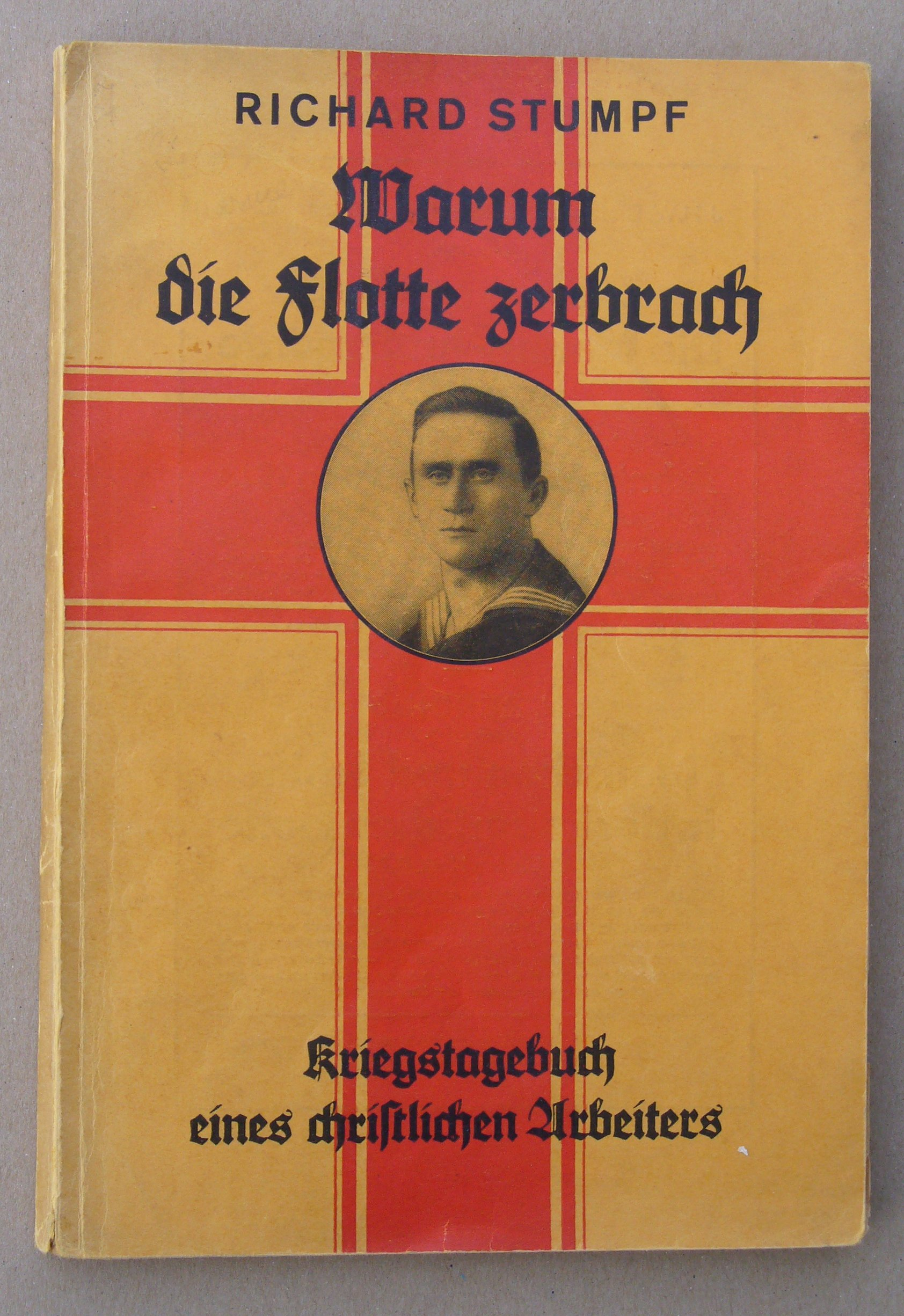 Photograph of the book-cover: Richard Stumpf "Warum die Flotte zerbrach – Kriegstagebuch eines christlichen Arbeiters“ (Wilhelm Dittmann, Ed.), Verlag J.H.W. Dietz Nachfolger, Berlin, 1927.